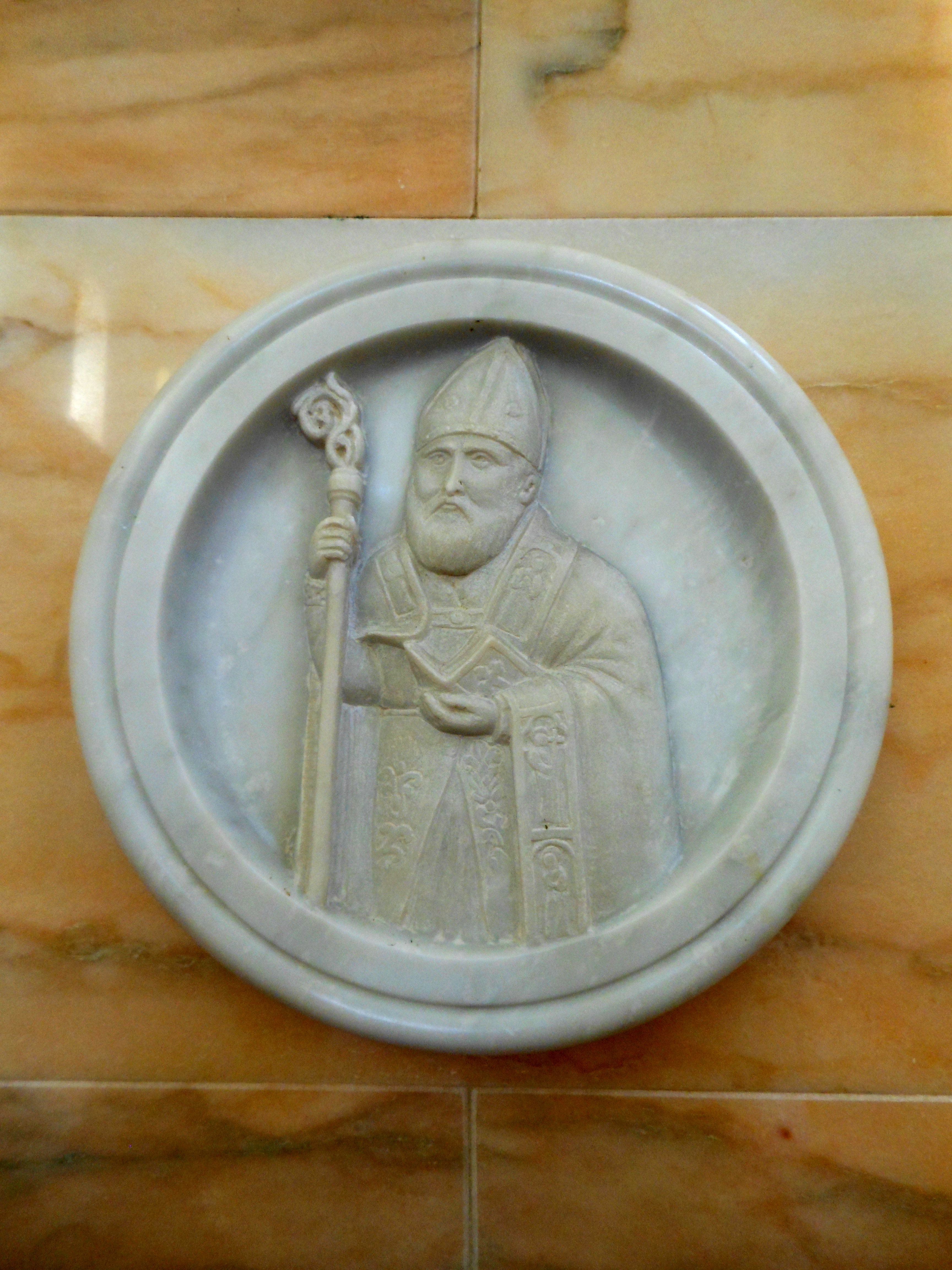 Bas-relief depicting St. Paulinus. Detail of the altar in the church of St. Paulinus in Torregrotta, Sicily, Italy.